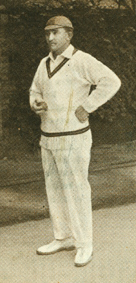 Smith's "Albion" Gold Flakes Cigarette Card of Bert Vogler, part of the 1912 Cricketers series.